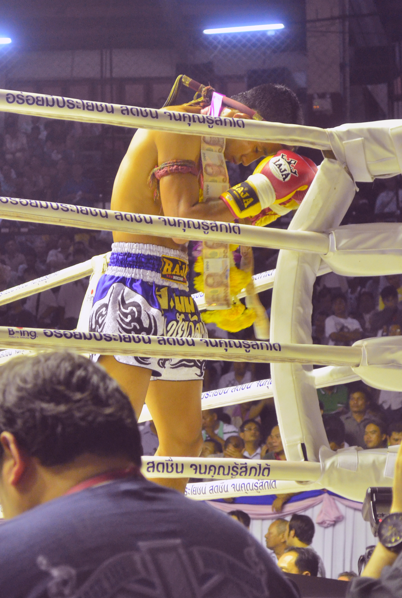 Pettawee Sor Kittichai